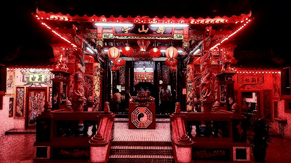 Marudi Tua Pek Gong Temple since year 1891.